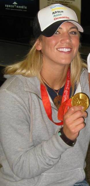 Hope Solo at Seatac International Airport returning from the 2008 Olympic Games.